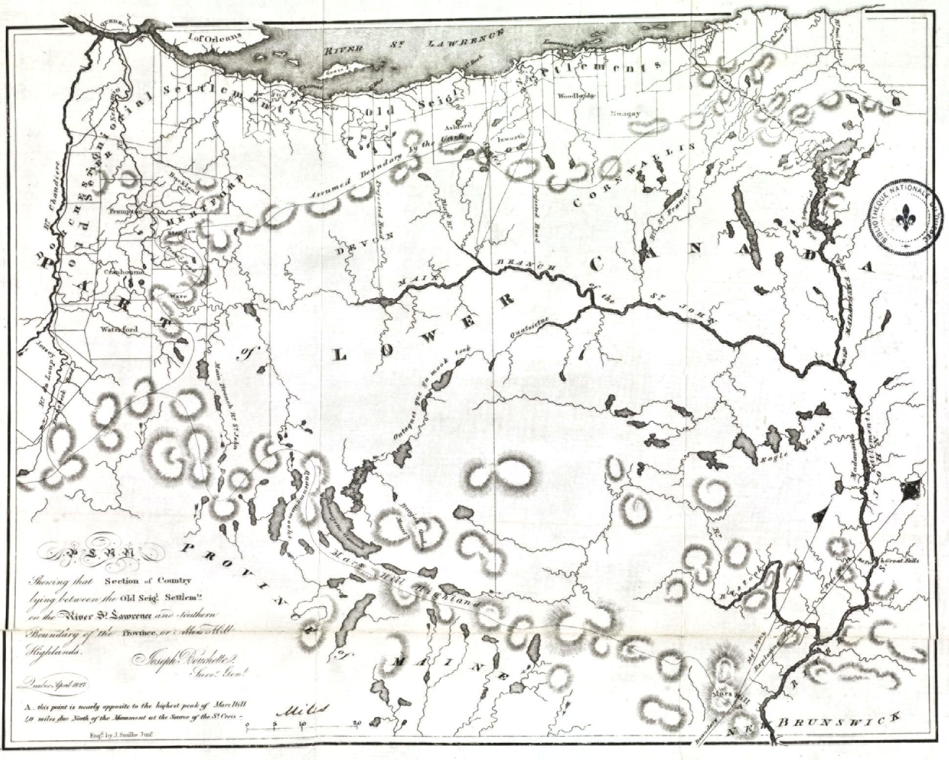 Plan showing that section of country lying between the old seig. settlemts on the river St. Lawrence and southern boundary of the province or Mars Hill Highlands